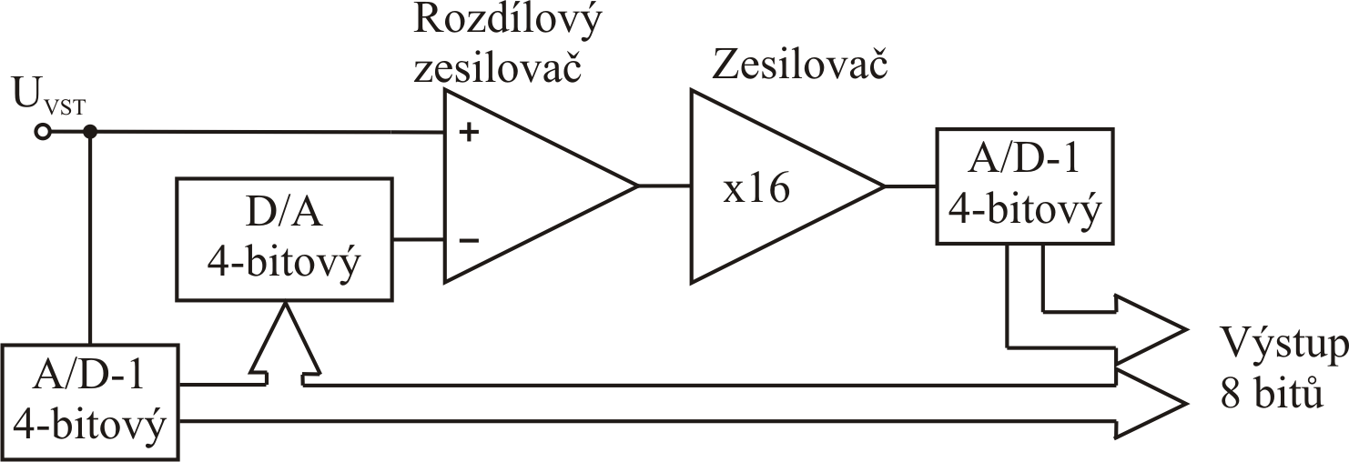 ADC